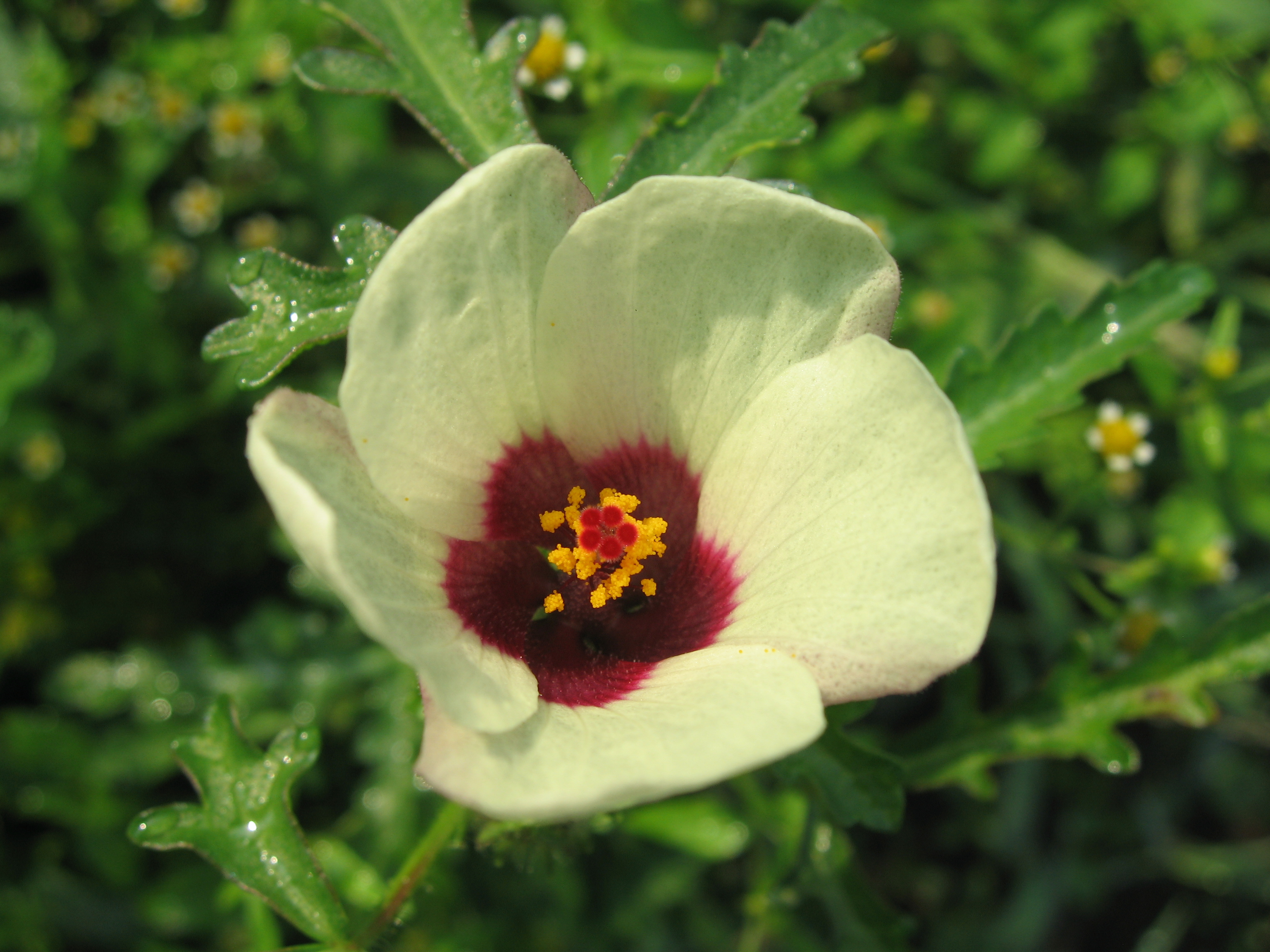 Hibiscus trionum flower closeup